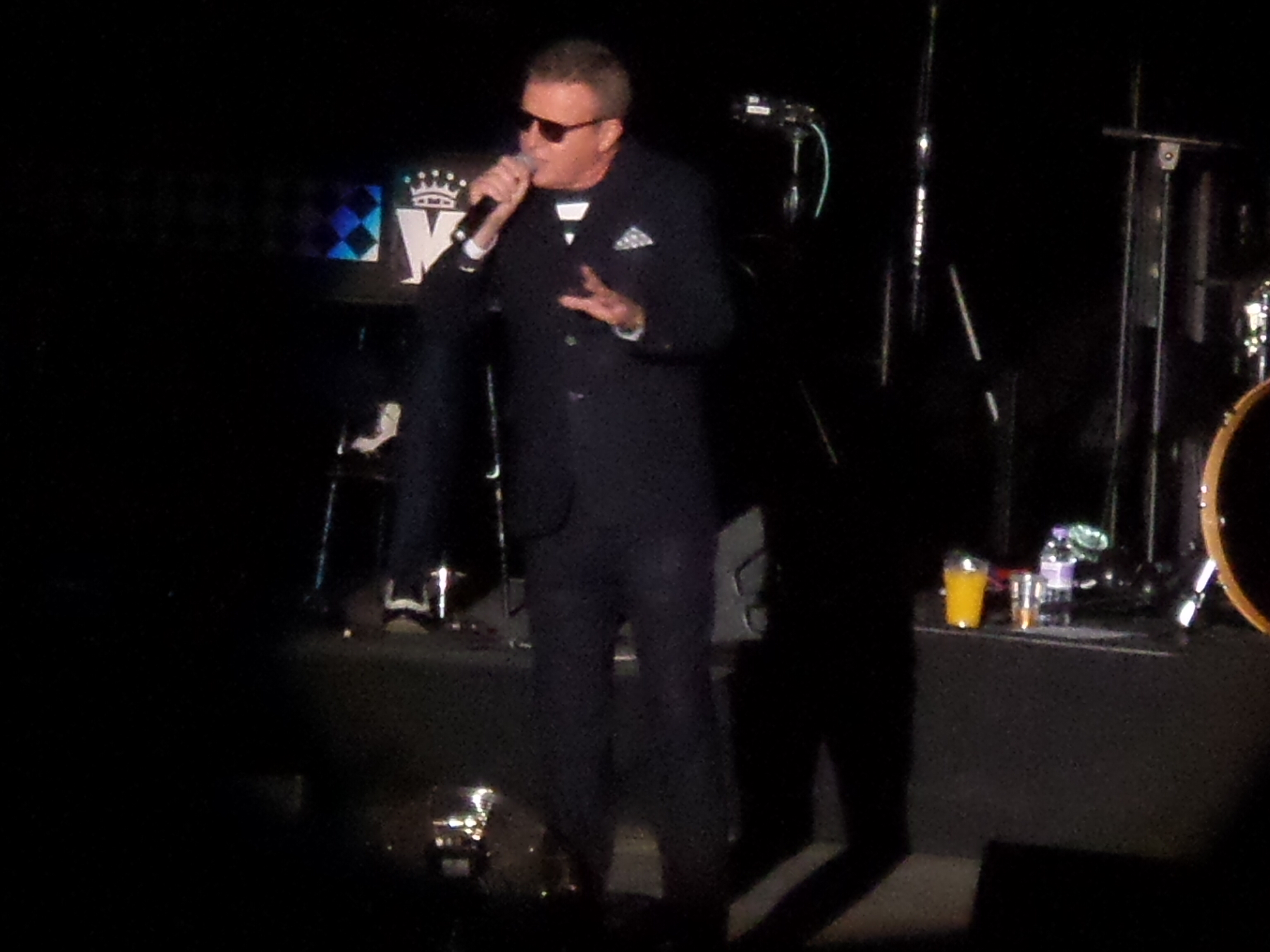 Madness Manchester Arena Dec. 19, 2014 Suggs (vocalist for Madness)